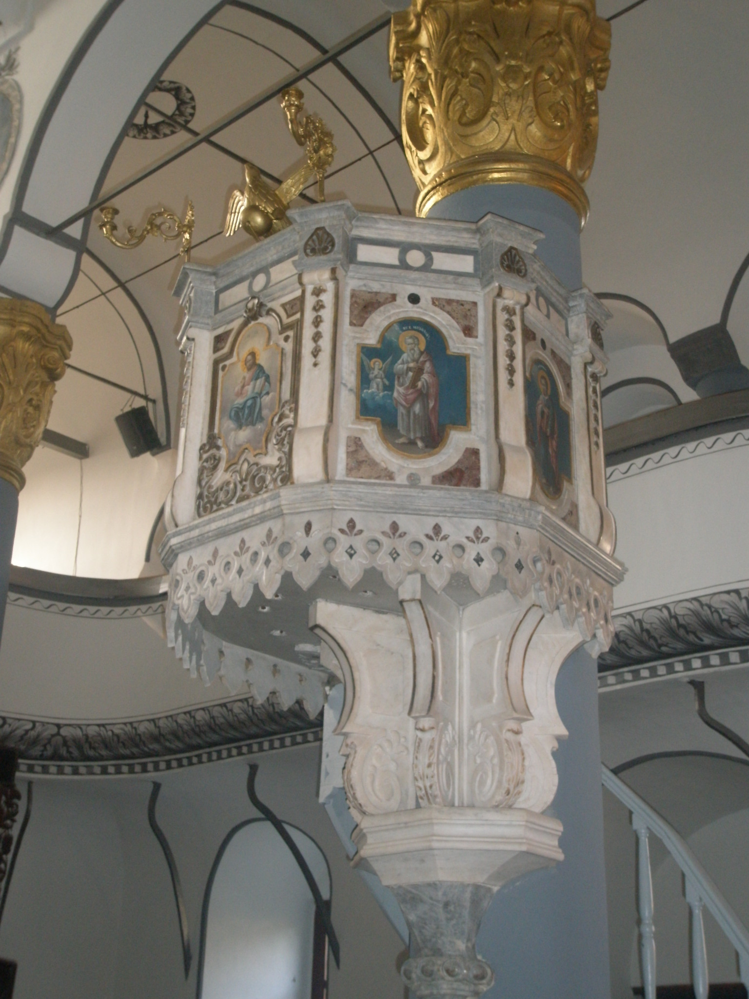 амвон